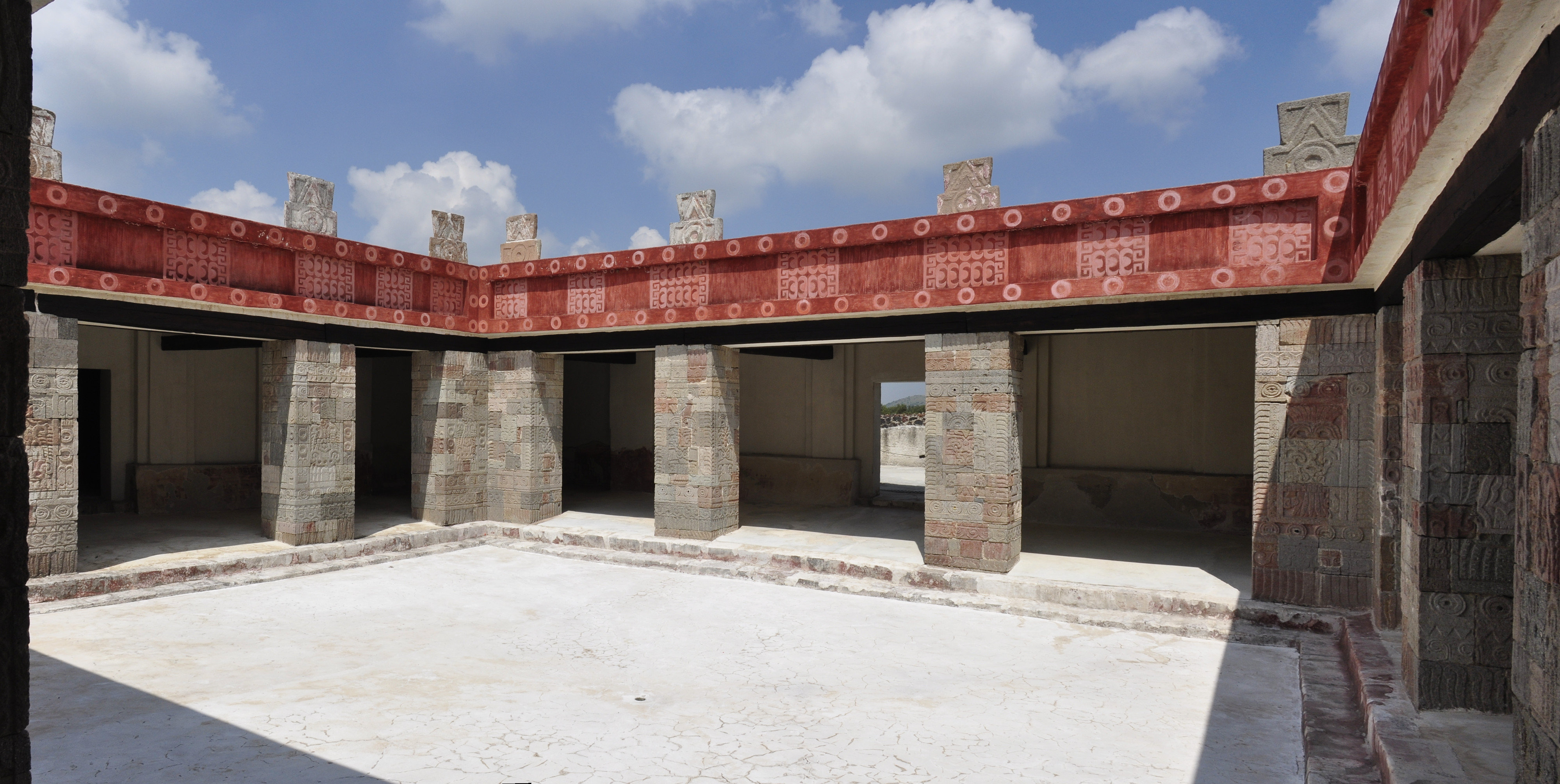 Photograph from Wiki Loves Pyramids trip to Teotihuacan: Palace of Quetzalpapalotl - 05.jpg